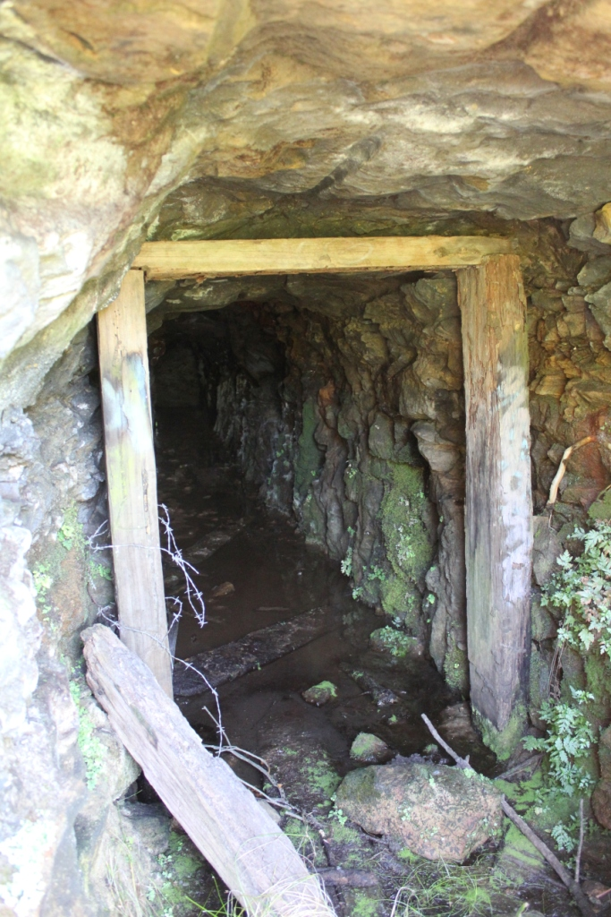 During 1942 when a Japanese invasion seemed a real possibility, a tunnel and chamber were built immediately above the northern portal of the tunnel into which explosives would have been packed and detonated if required, thereby blocking the tunnel.